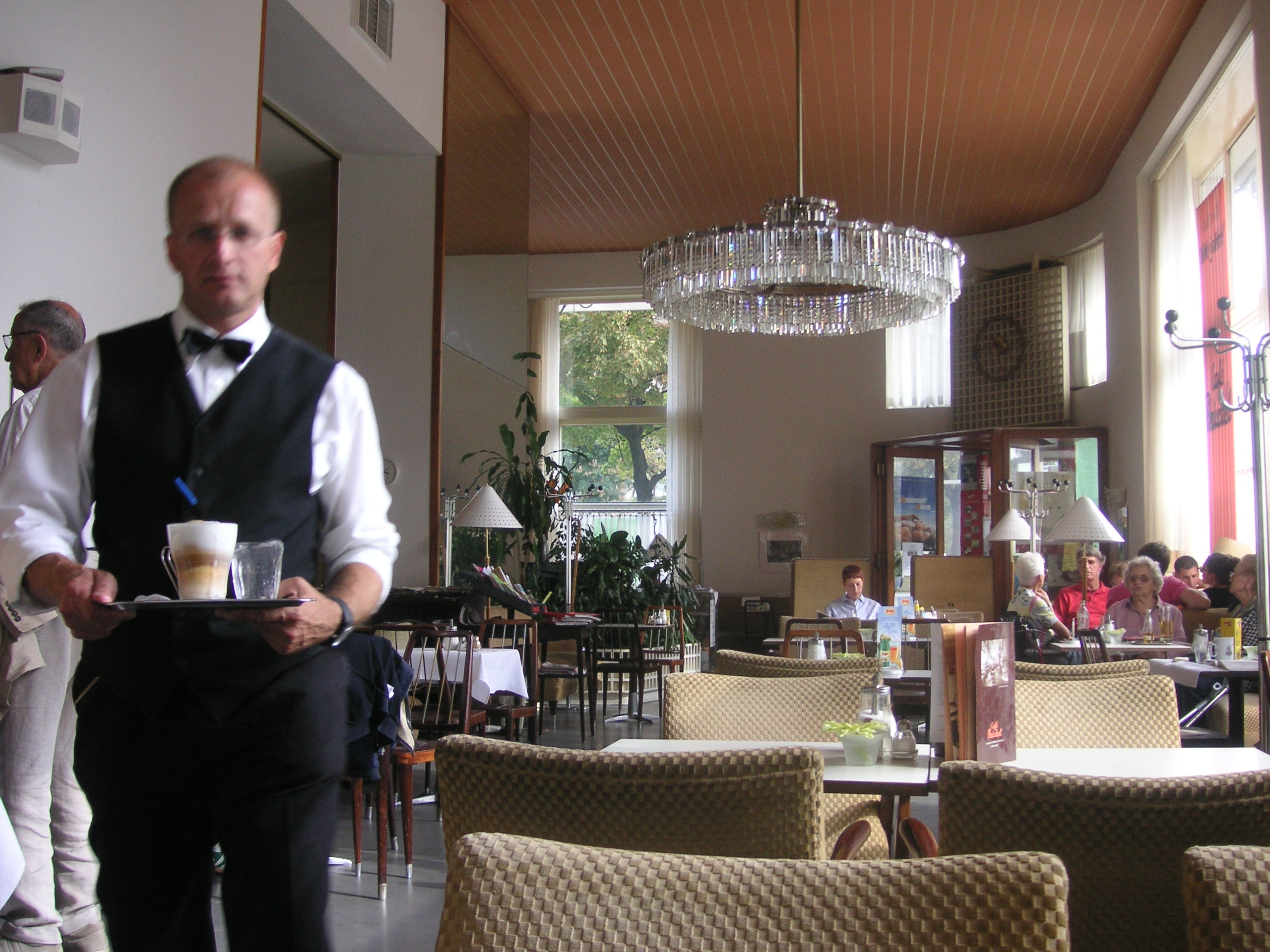 Café Prückel, Innere Stadt, Vienna, Austria in September 2005. Photo by KF